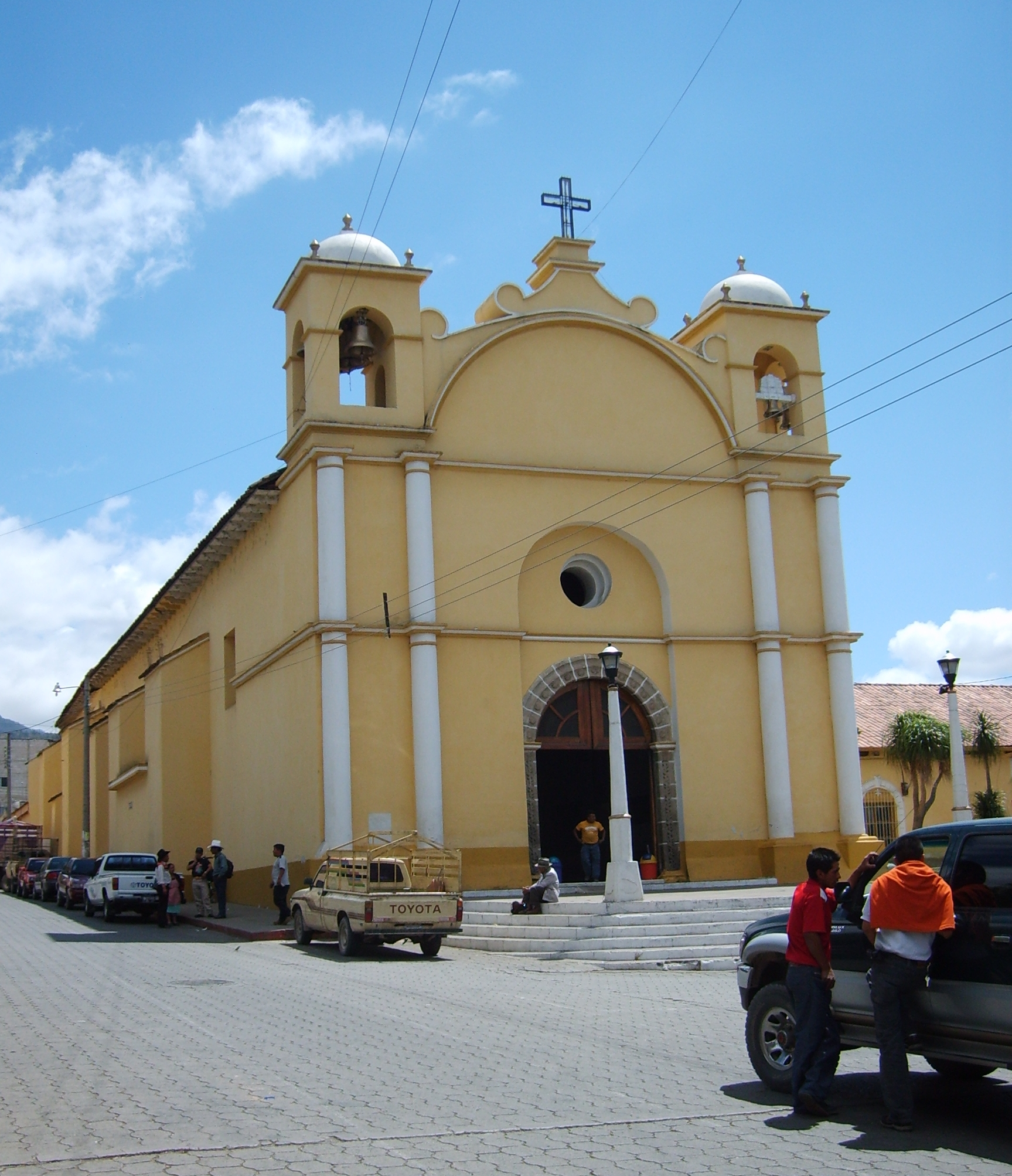 Church of Nuestra Señora de Candelaria in Chiantla, Huehuetenango department, Guatemala.